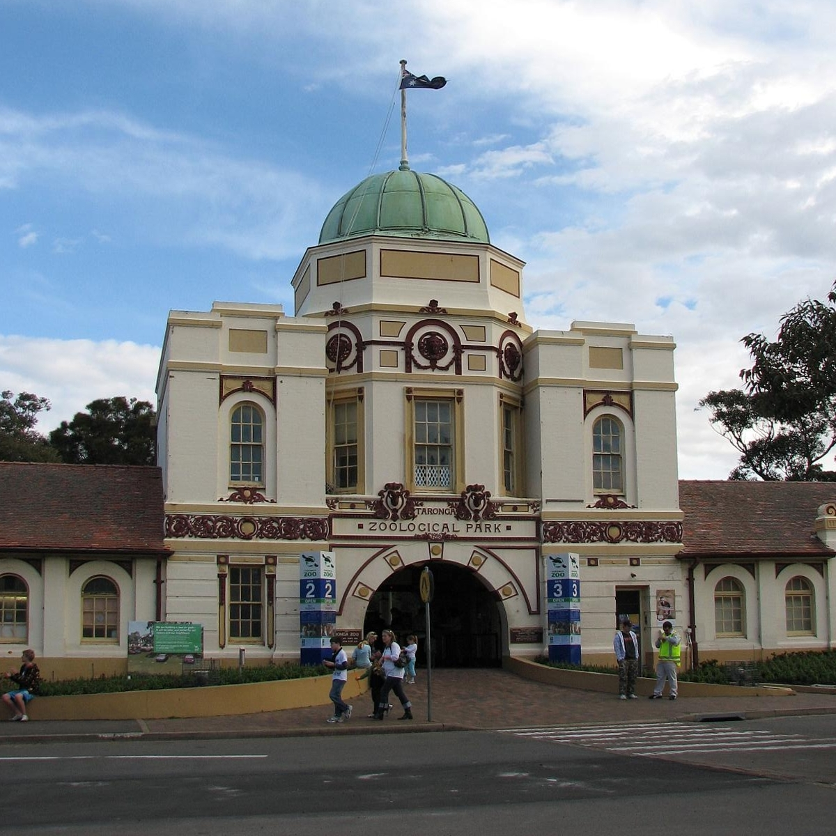 Taronga Zoo is the city zoo of Sydney, New South Wales, Australia. Photo 7 September 2008.